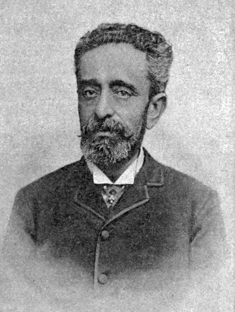 image from "Rivista italiana di numismatica 1888.djvu p. 417 (../440): Portrait of Isaia Ghiron